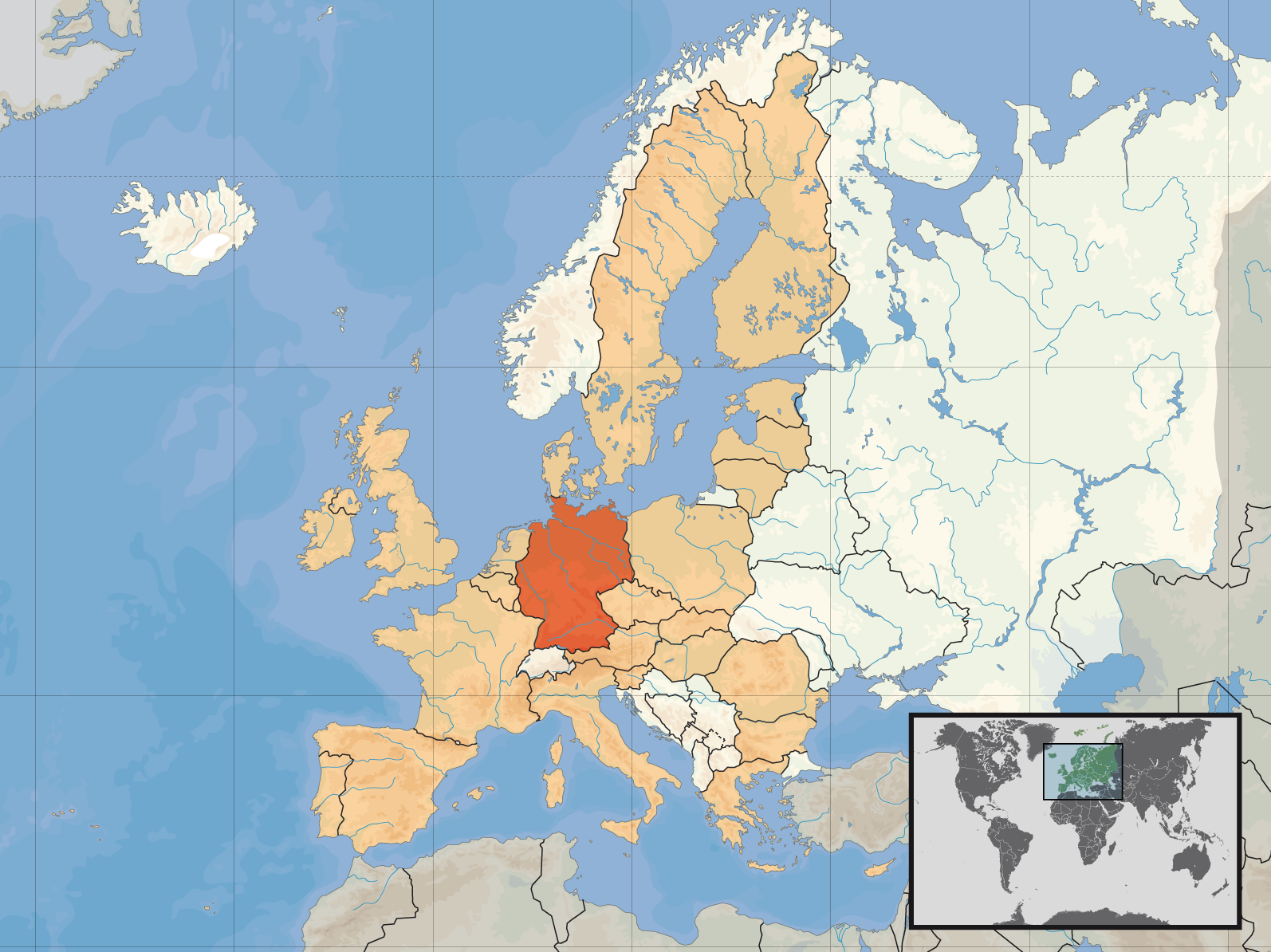 Location of the Federal Republic of Germany within Europe and the European Union on the 18h of February 2008.